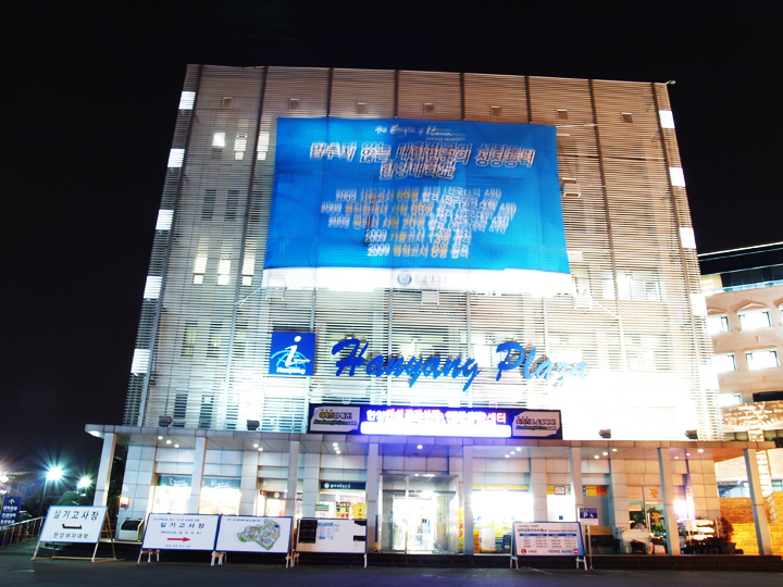 Hanyang Plaza. the building of welfare and students' clubs